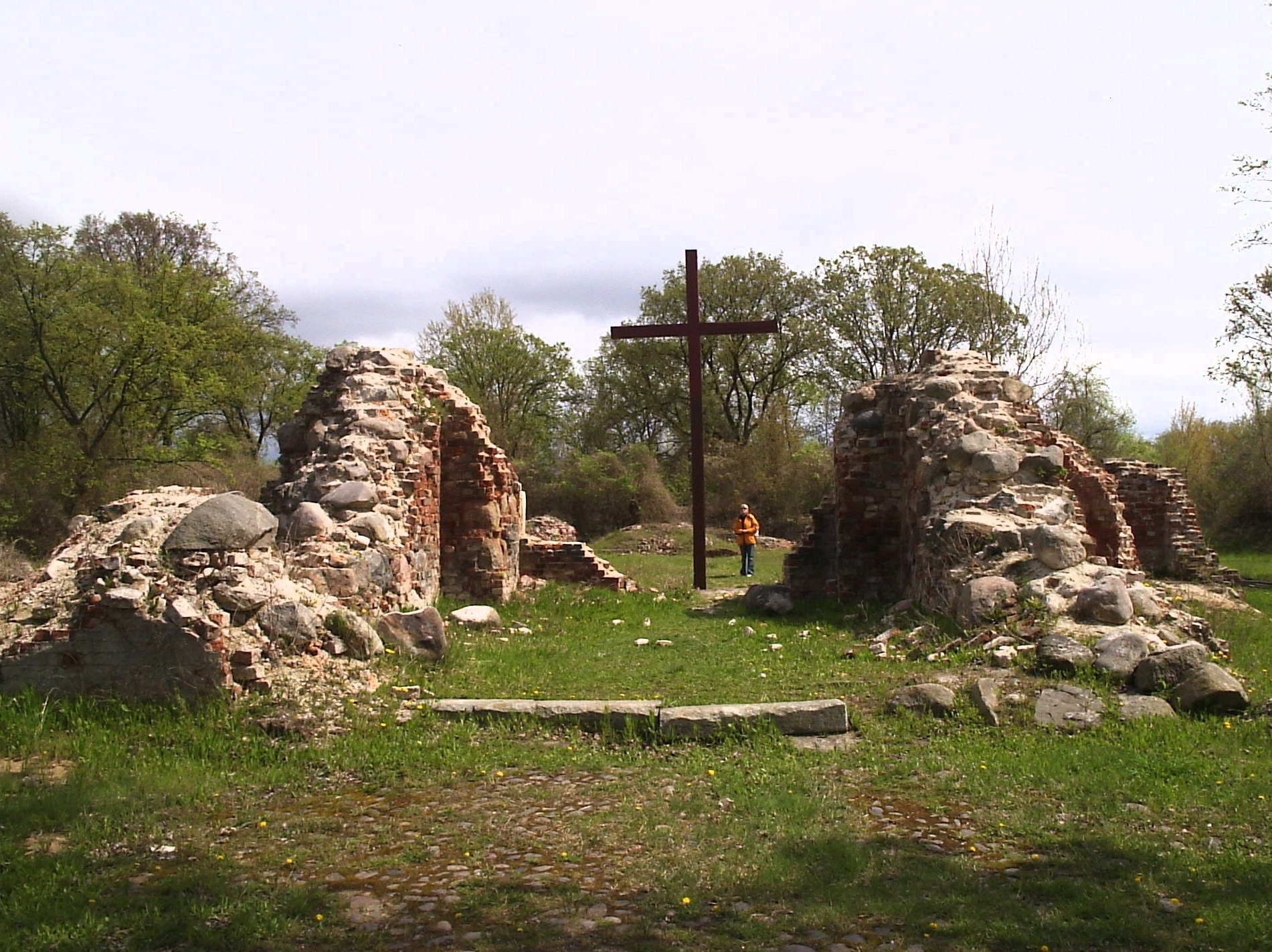 Church - Kostrzyn nad Odrą, Poland